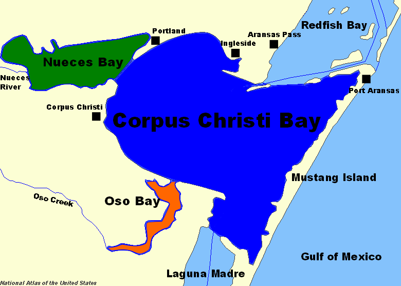 Corpus Christi Bay Map